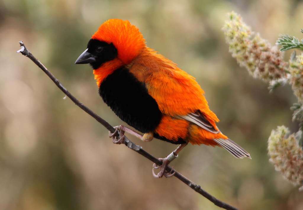 Southern Red Bishop or Red Bishop (Euplectes orix)